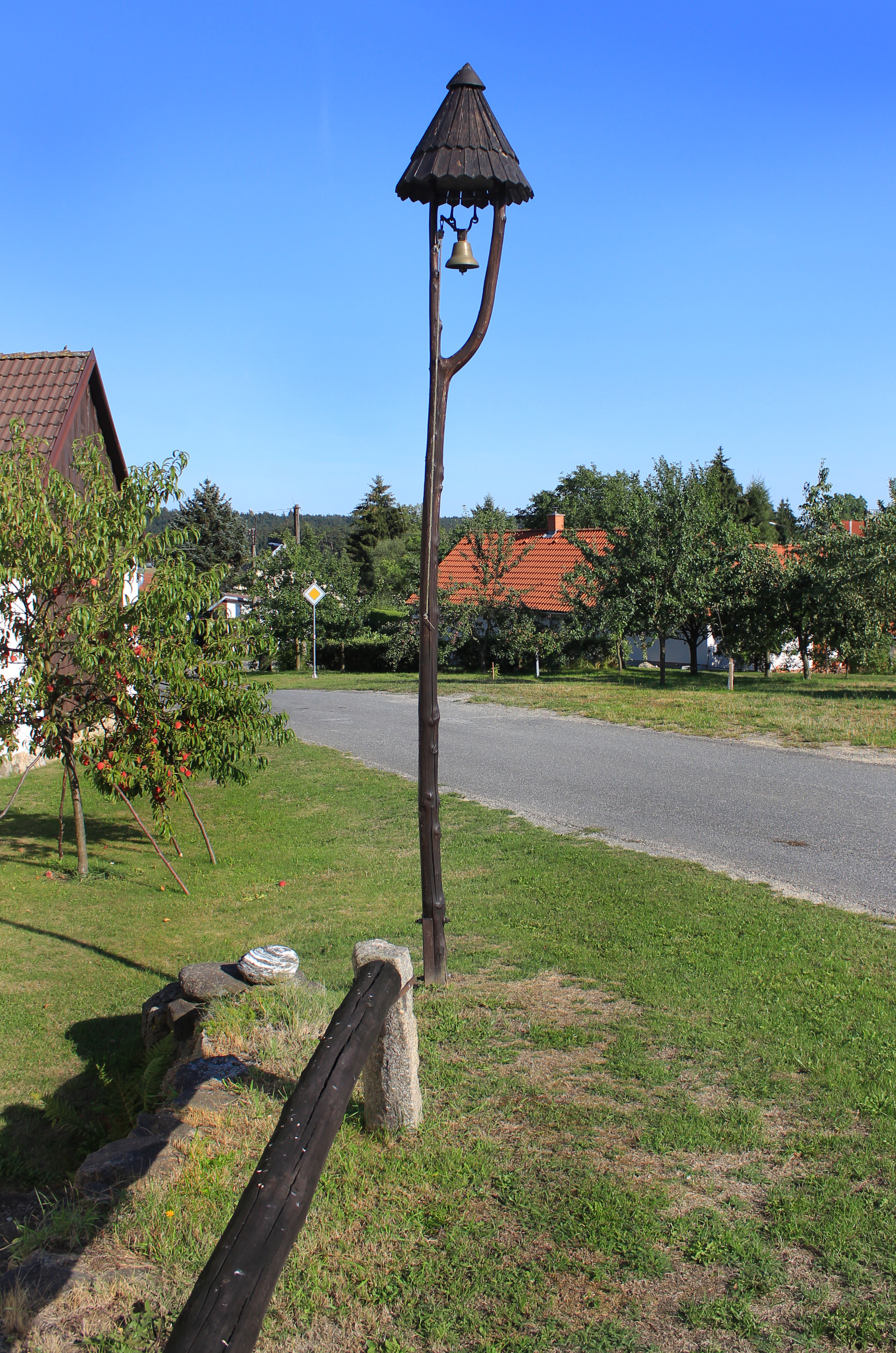 Bell tower in Šach, part of Volfířov, Czech Republic.